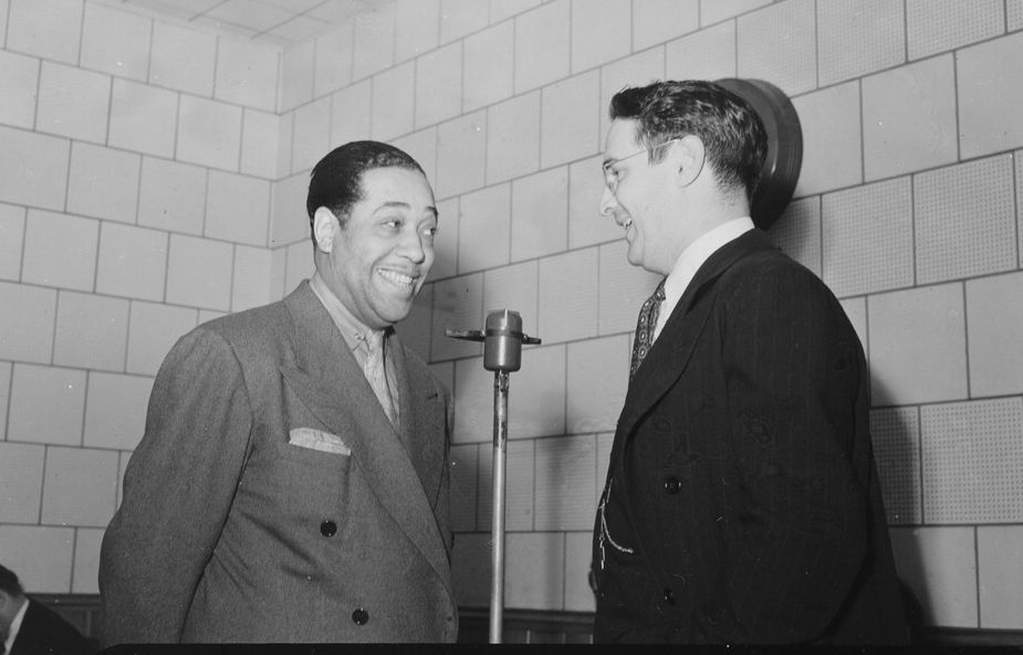 Duke Ellington with the photographer William P. Gottlieb, Winx radio, Washington ca.1942